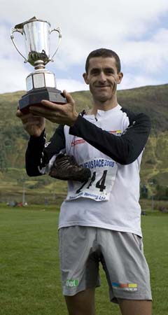 Agusti Roc Amador, 2008 Ben Nevis Race